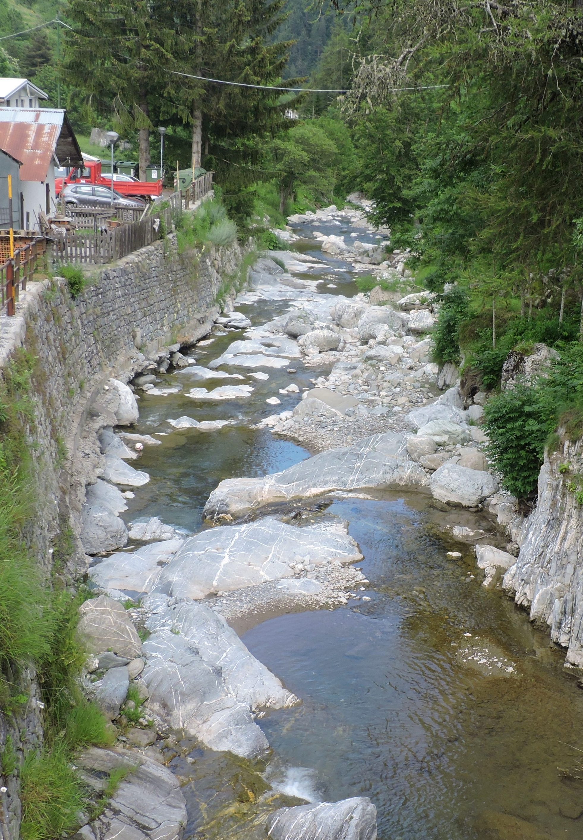 Nivorina creek in Upega (Briga Alta, CN, Italy)